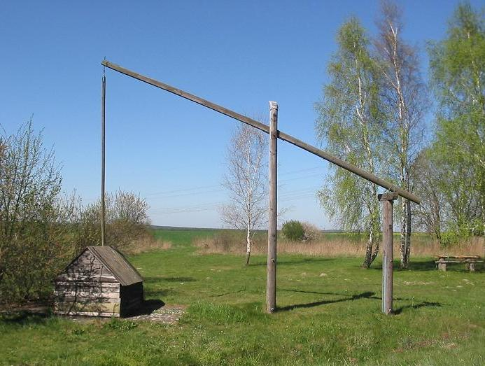 Technical monument Draw well nearby Wahlsdorf, 12th century, reconstructed. The village Wahlsdorf is a part of the municipality Wörpen in the Nature park Fläming in the district Wittenberg, state Saxony-Anhalt, Germany.